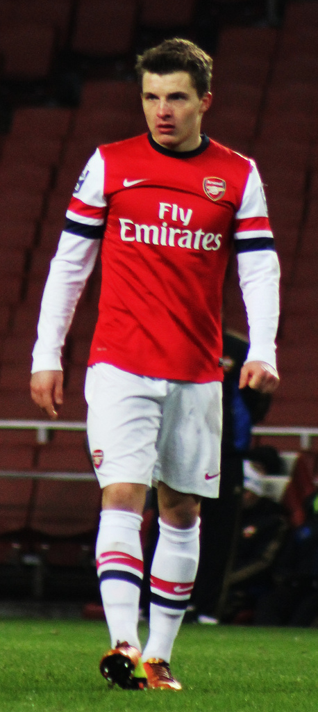 Thomas Eisfeld, player of Arsenal FC